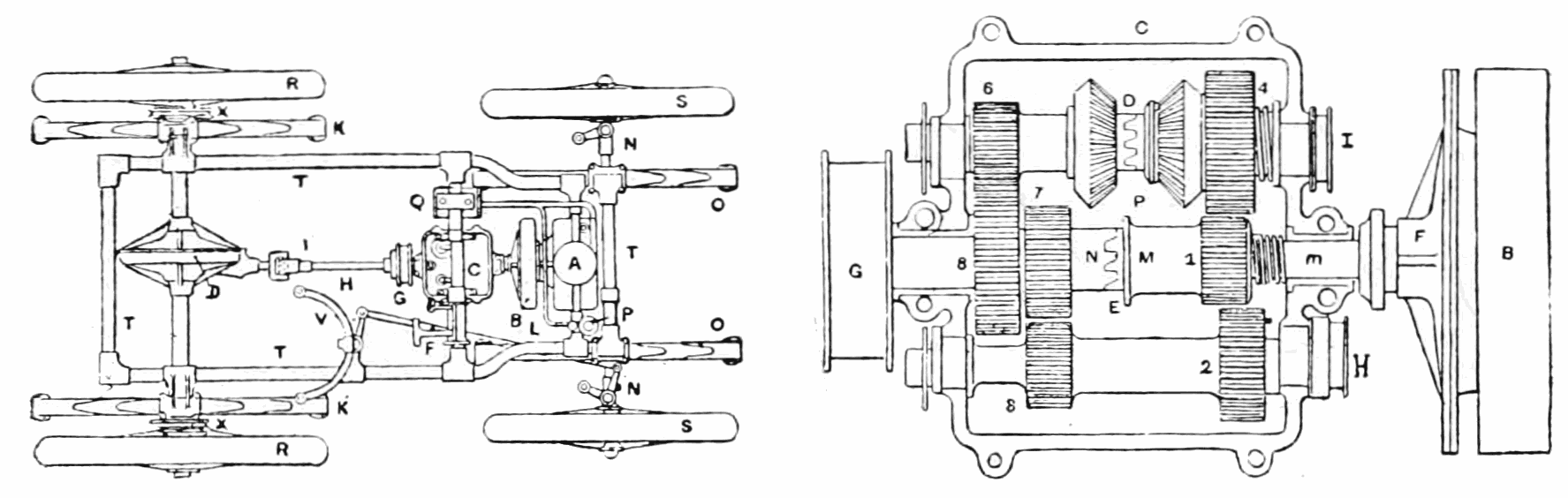 Plan of the truck and the variable speed gear. Notes from original article:"The motor is located at A, and through a friction clutch B, and the variable speed gear C, it rotates the shaft 77, which runs lengthwise of the vehicle. Motion is imparted to the hind axle by means of bevel gears contained within the casing D. The large bevel gear on the axle is of the differential type, so as to drive the wheels H R at the proper velocities. When a high speed is desired, the variable speed gear, Fig. 10, is set so that shaft M drives N direct, the clutch at E being moved so as to interlock. N is the end of shaft //, so that with this connection the bevel pinion, which meshes into the axle gear at D, revolves at the same velocity as the motor shaft. By moving the handle V, Fig. 9, to the right, an intermediate speed is obtained, and by moving it to the left, the carriage is run at the lowest velocity. "When the handle V is turned to the right, the ends M and N, which form the clutch E, Fig. 10, are separated, and at the same time the lower shaft H is moved toward M, so as to cause gear 1 to mesh into gear 2, and also 3 into 7. By this means the end N of the axle-driving shaft is rotated through the train of gears 1, 2, 3 and 7. If the handle V is turned to the left, the shaft I is moved toward M, so as to cause gear 1 to mesh into gear 4, and gear 6 into 8, the latter being secured to end N of the axle-driving shaft. The speeds obtained by these changes are in the ratio of nearly 1, 2 and 4."